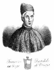 Francesco Dandolo (died 1339) was the 52nd Doge of Venice.